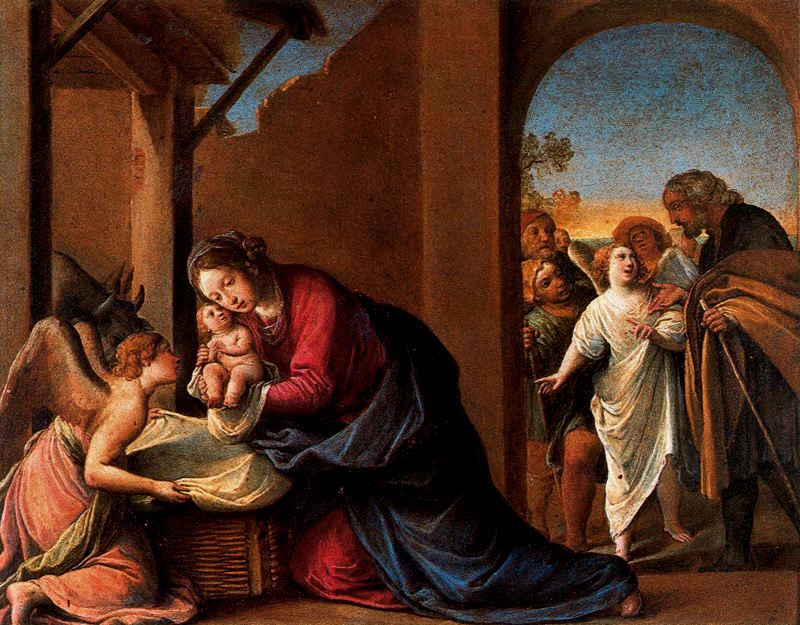 Nativity